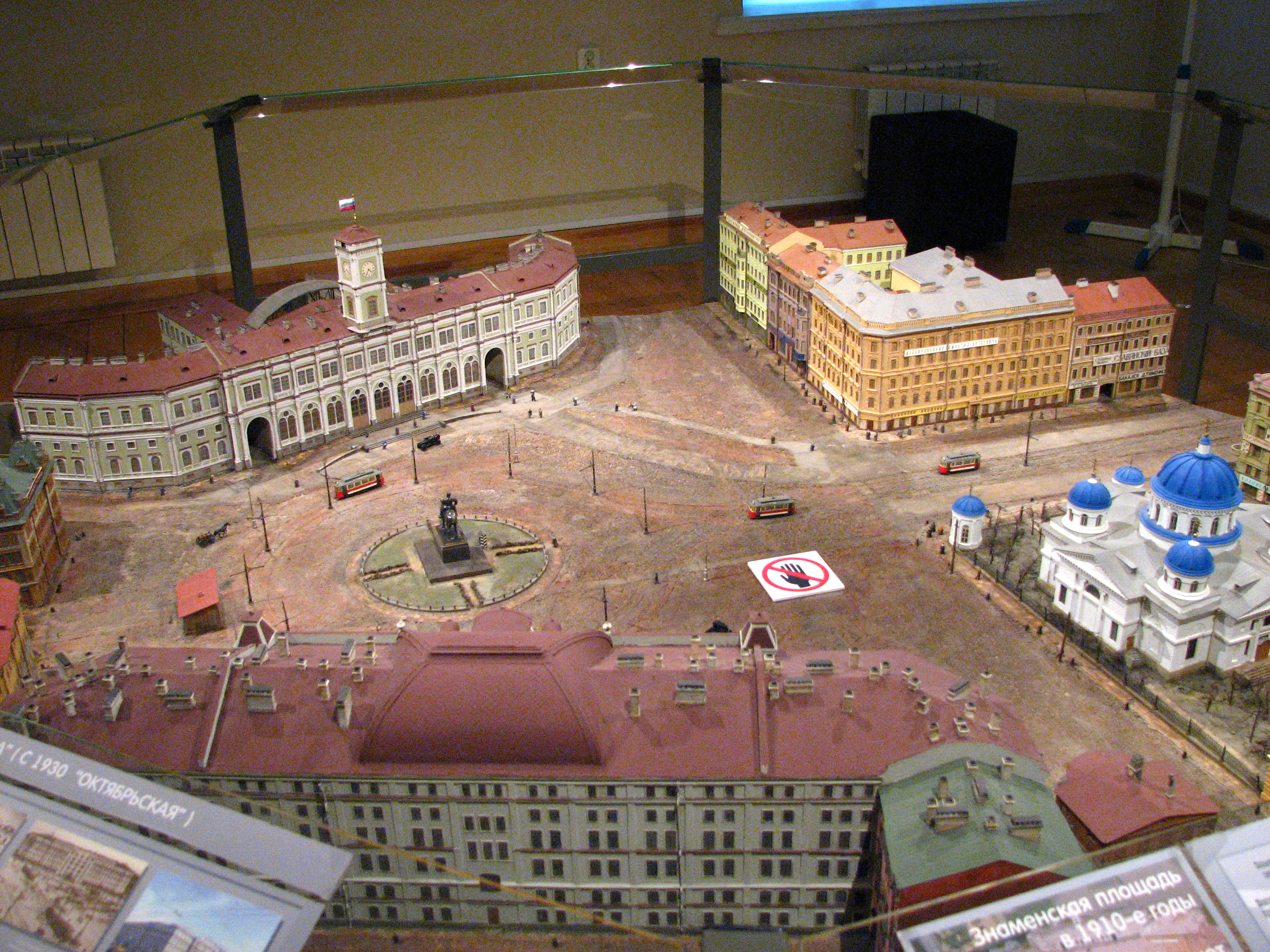 Saint Petersburg. Museum of history of St.-Petersburg (an exposition in the Commandant's house of the Peter and Paul Fortress). Znamenskaia Square model in the 1910s. Top left: Moskovsky railway station. In the center: a monument to Emperor Alexander III. Right: Znamenskaya Church.